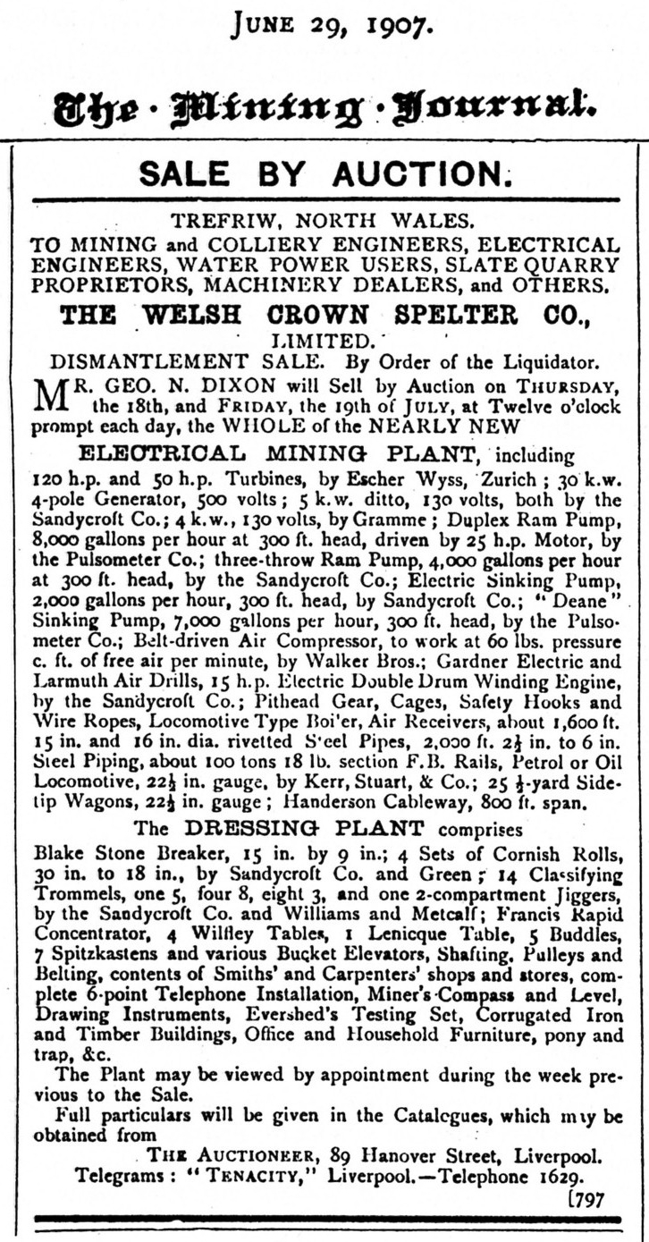 Mine auction advert of material owned by the Welsh Crown Spelter Co. Ltd., from the Mining Journal, 1907